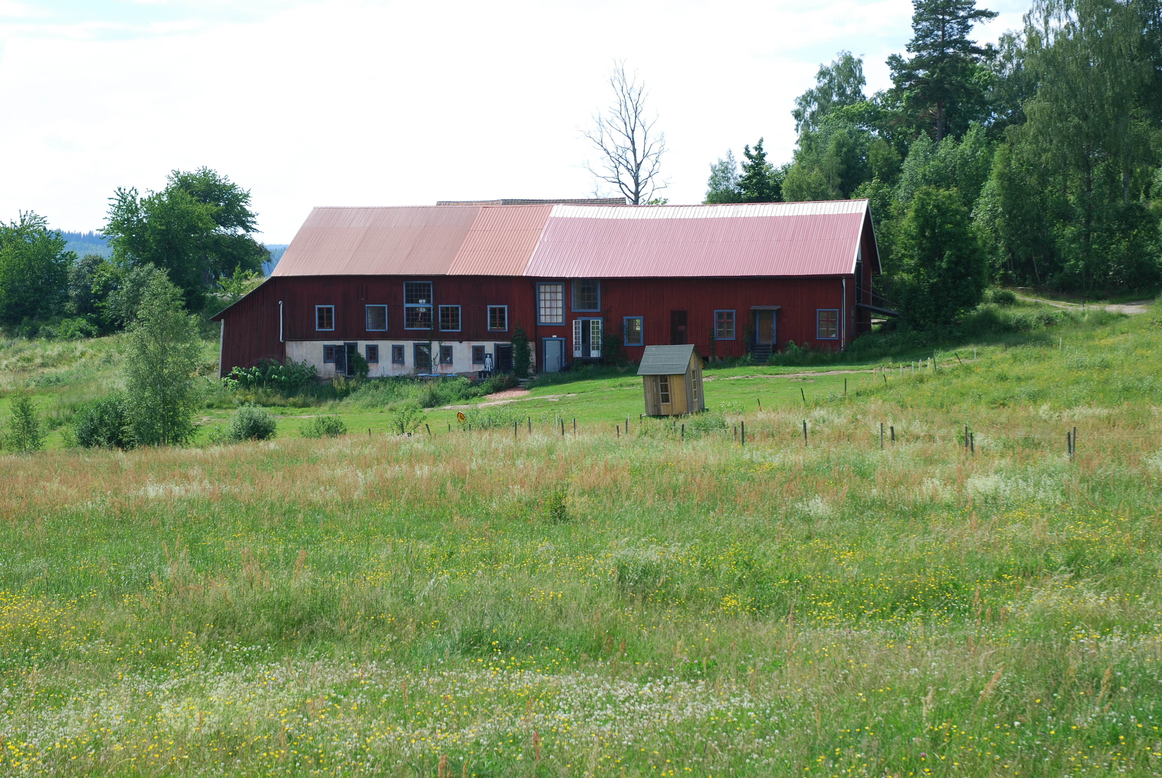 Alma Löv Museum, Paleis Oranjestraat, Sunne, Sweden